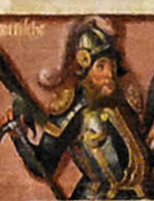 Bogislaw V of Pomerania